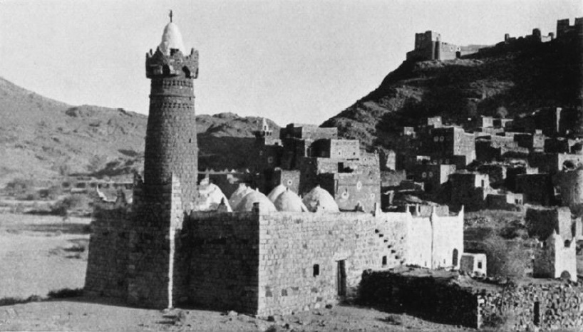 Partial view of Dhala in 1937, with the main mosque in the foreground. Atop the hill is the castle where the hereditary Amir of Dhala resided. Dhala, 65 miles north of Aden, lies 4,800 feet (1450 m) above sea level. It was then one of the states of the Aden Protectorate, strategically located near the border of the Protectorate and what was then the Imamate (Kingdom) of Yemen. Dhala was occupied by the Turks during WW I and by the troops of Imam Yahya of Yemen in the mid-1920s. It was recaptured by the British.